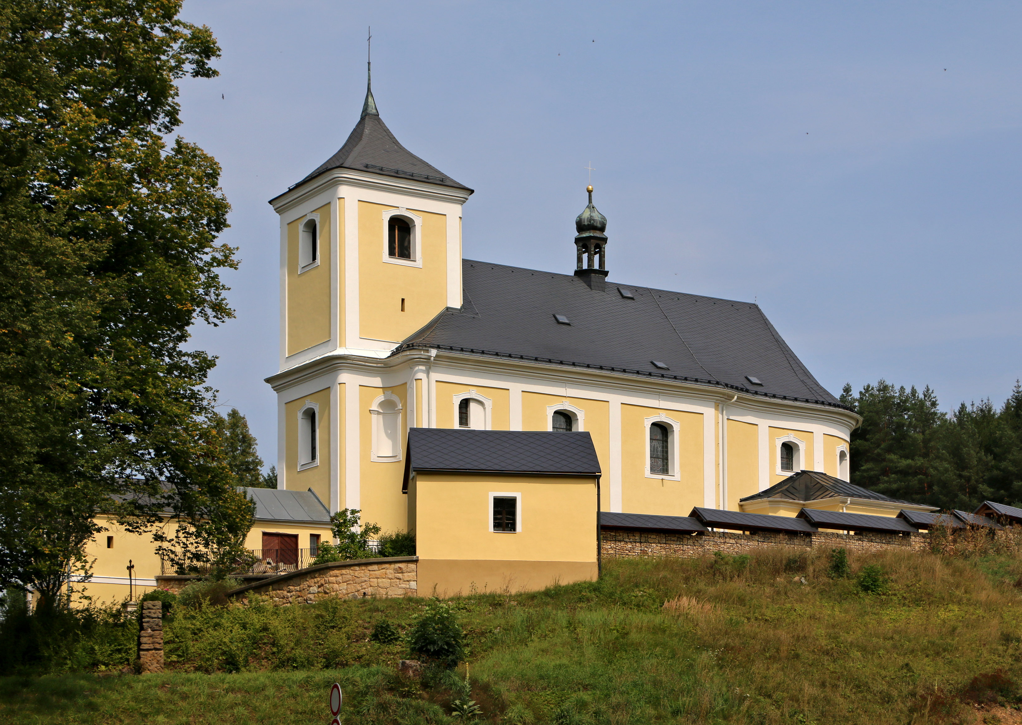 Church at Horní Hynčina, part of Pohledy, Czech Republic.